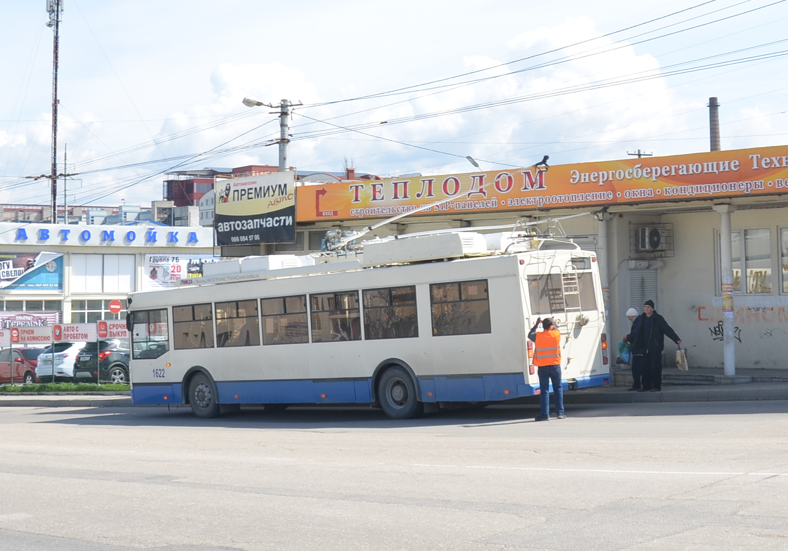 Trolleybus Trolza "Optima" with independent swing in Sevastopol